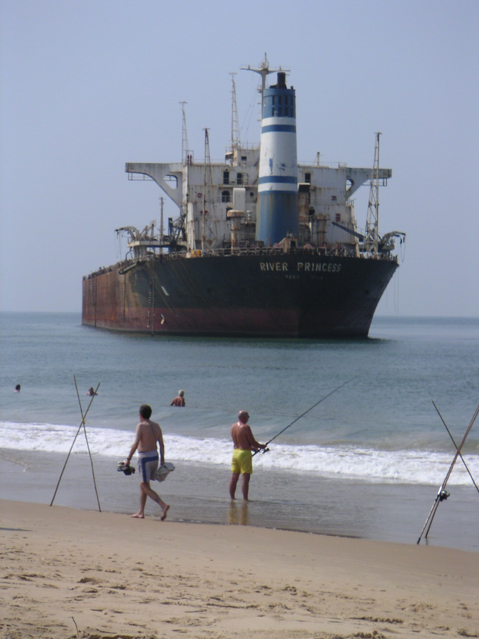 Ore carrier ship River Princess, stranded at Calangute Beach in Goa since 2000